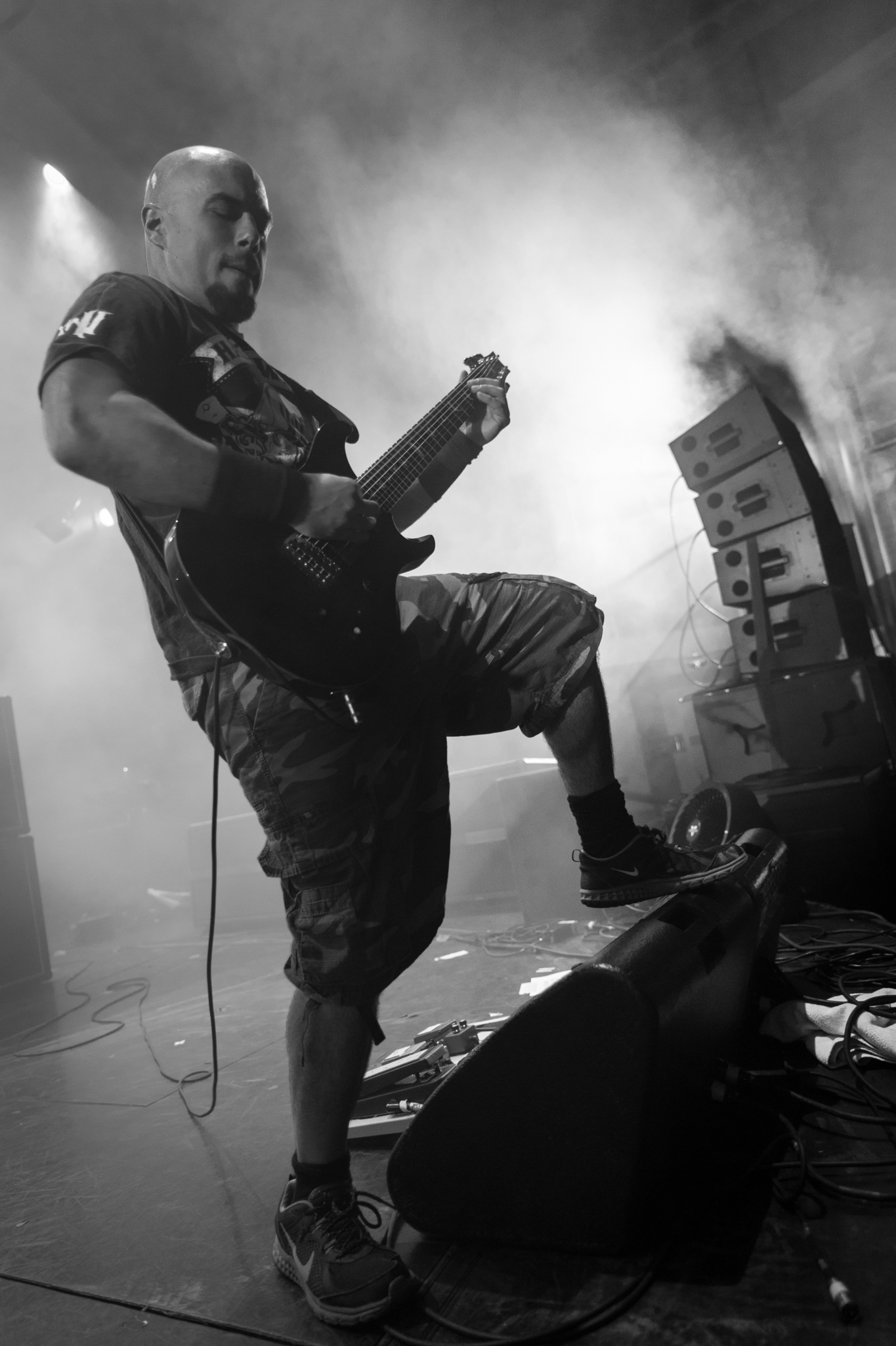 Soulfly performing at 70.000 tons of metal, january 2015